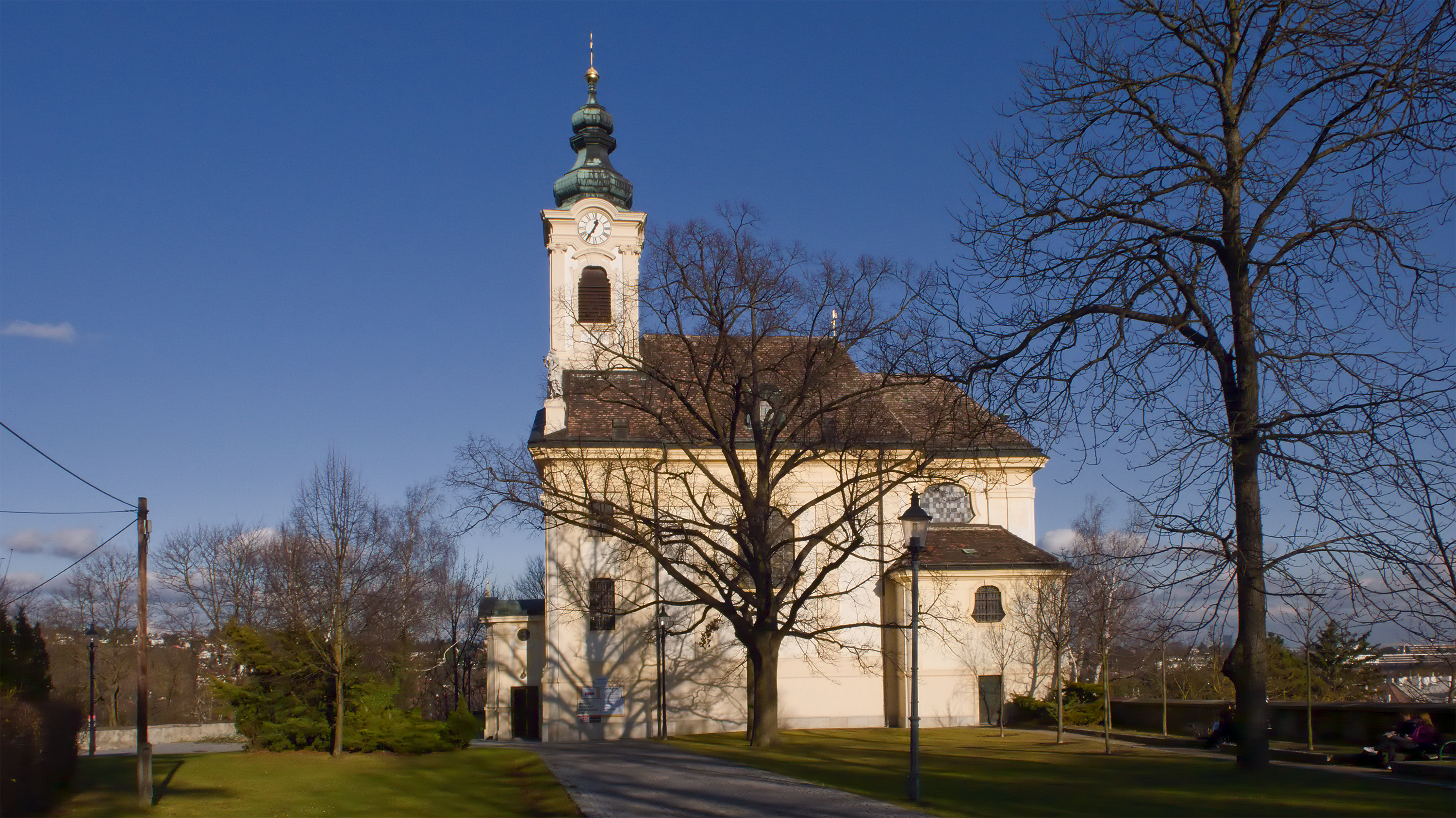 Vienna Liesing: Bergkirche Rodaun